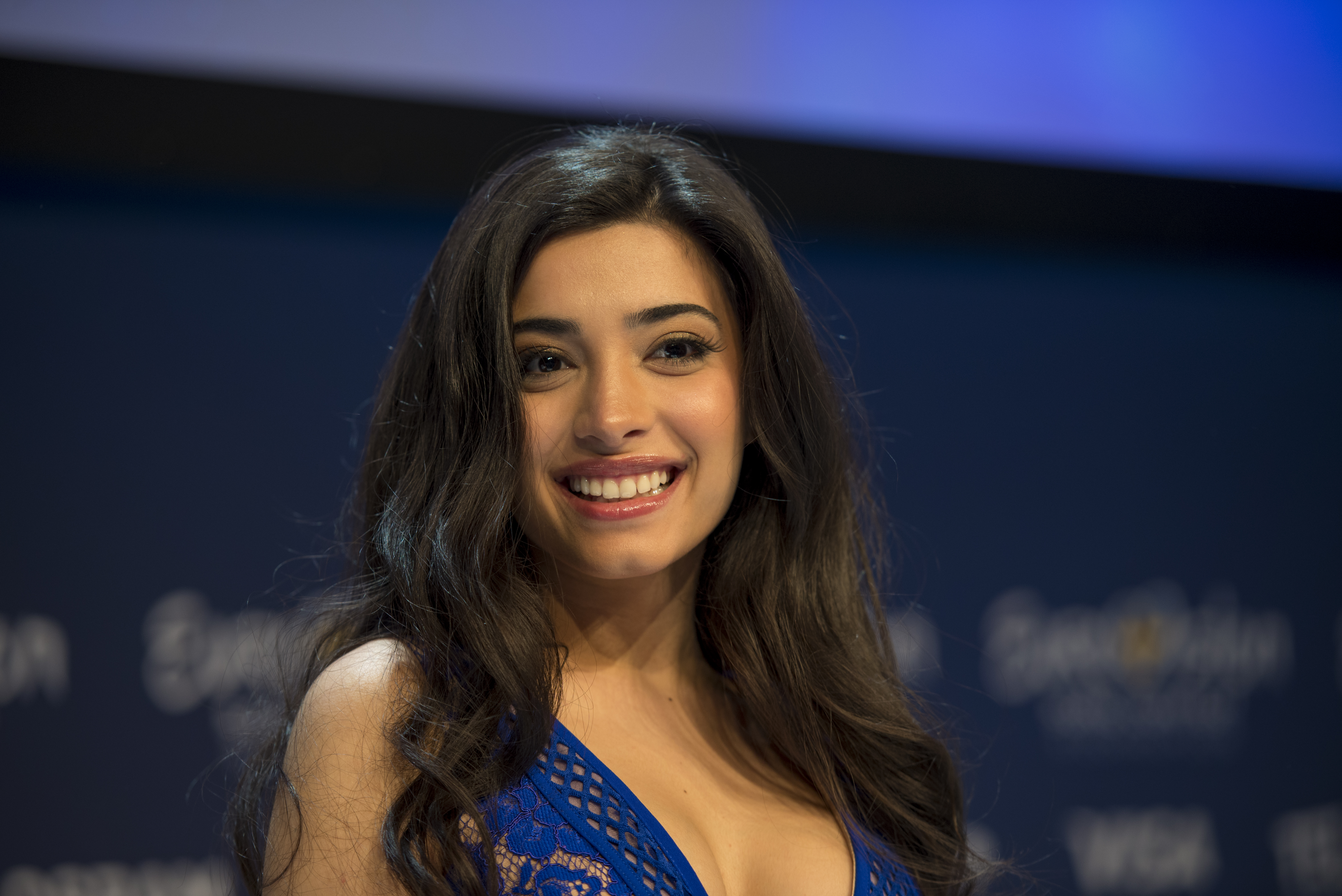 Samra at a Meet & Greet during the Eurovision Song Contest 2016 in Stockholm. (Help translate this text)